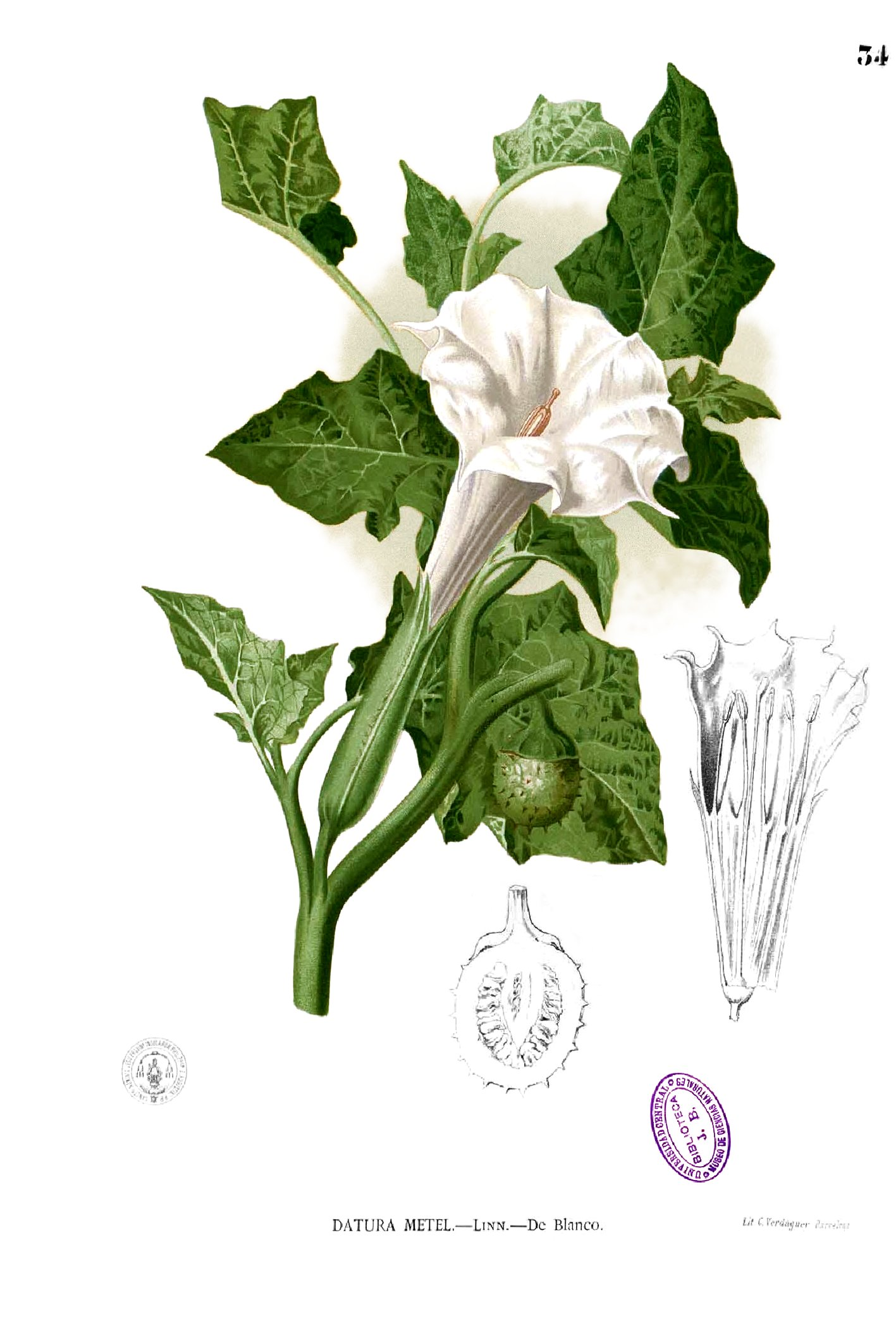 Plate from book. This plata probably illustrates Datura inoxia, a pubescent species. D. metel is more or less hairless.